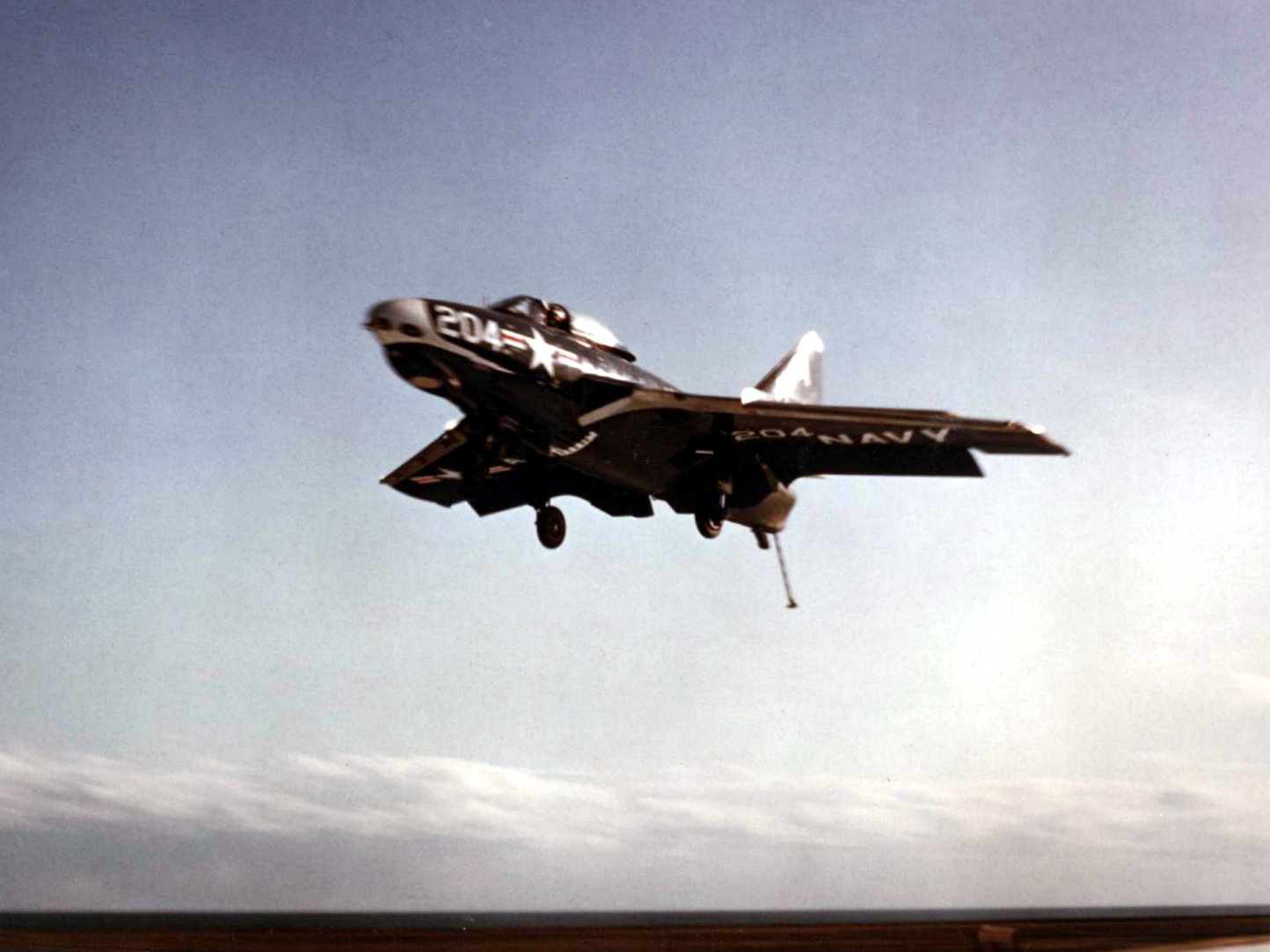 A U.S. Navy Grumman F9F-6 Cougar of Fighter Squadron VF-143 "Kingpins" landing aboard the aircraft carrier USS Kearsarge (CVA-33) off the coast of Southern California (USA), in 1953.